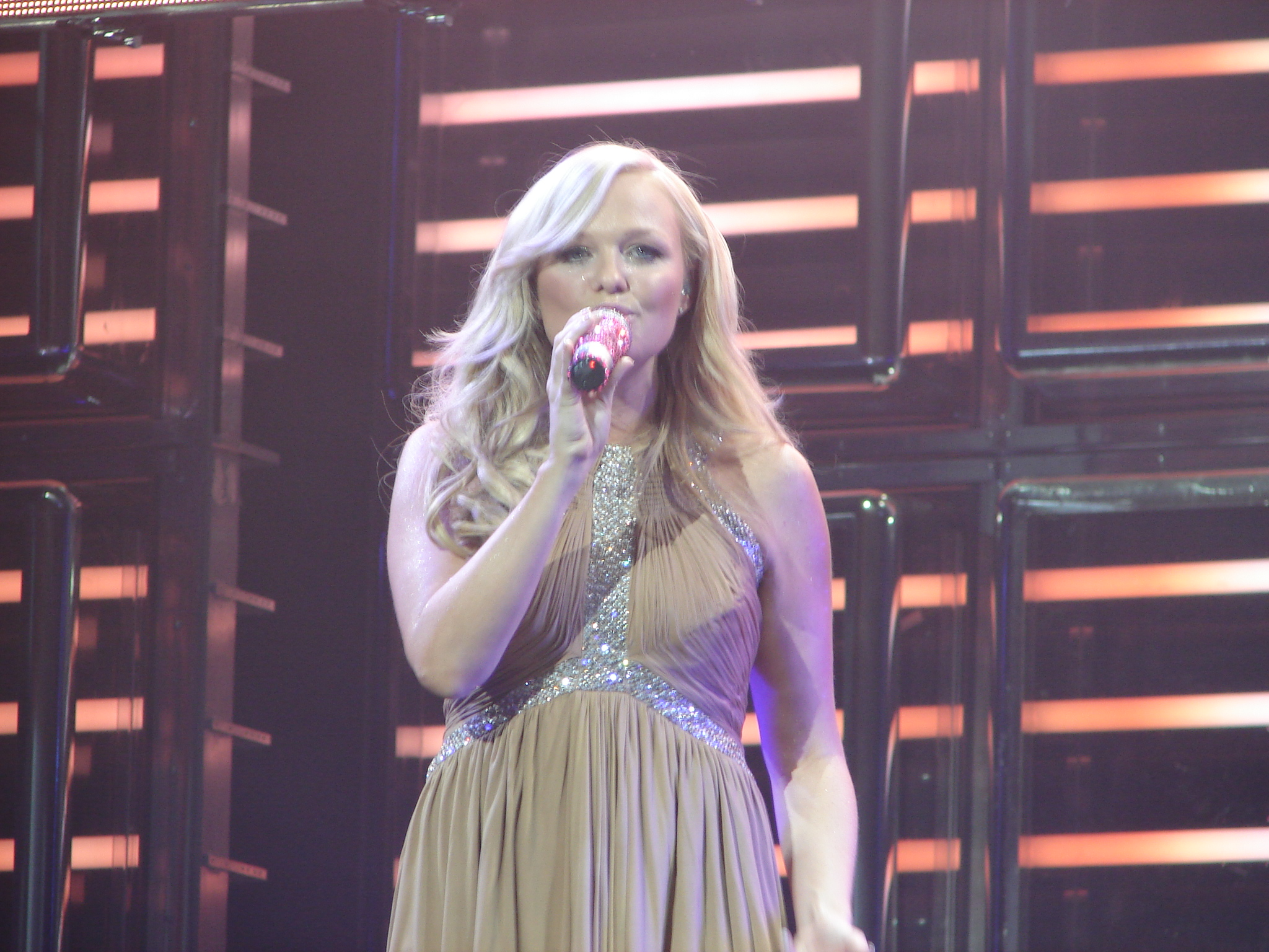 Emma Bunton performing in San Jose as part of the Spice Girls reunion tour.